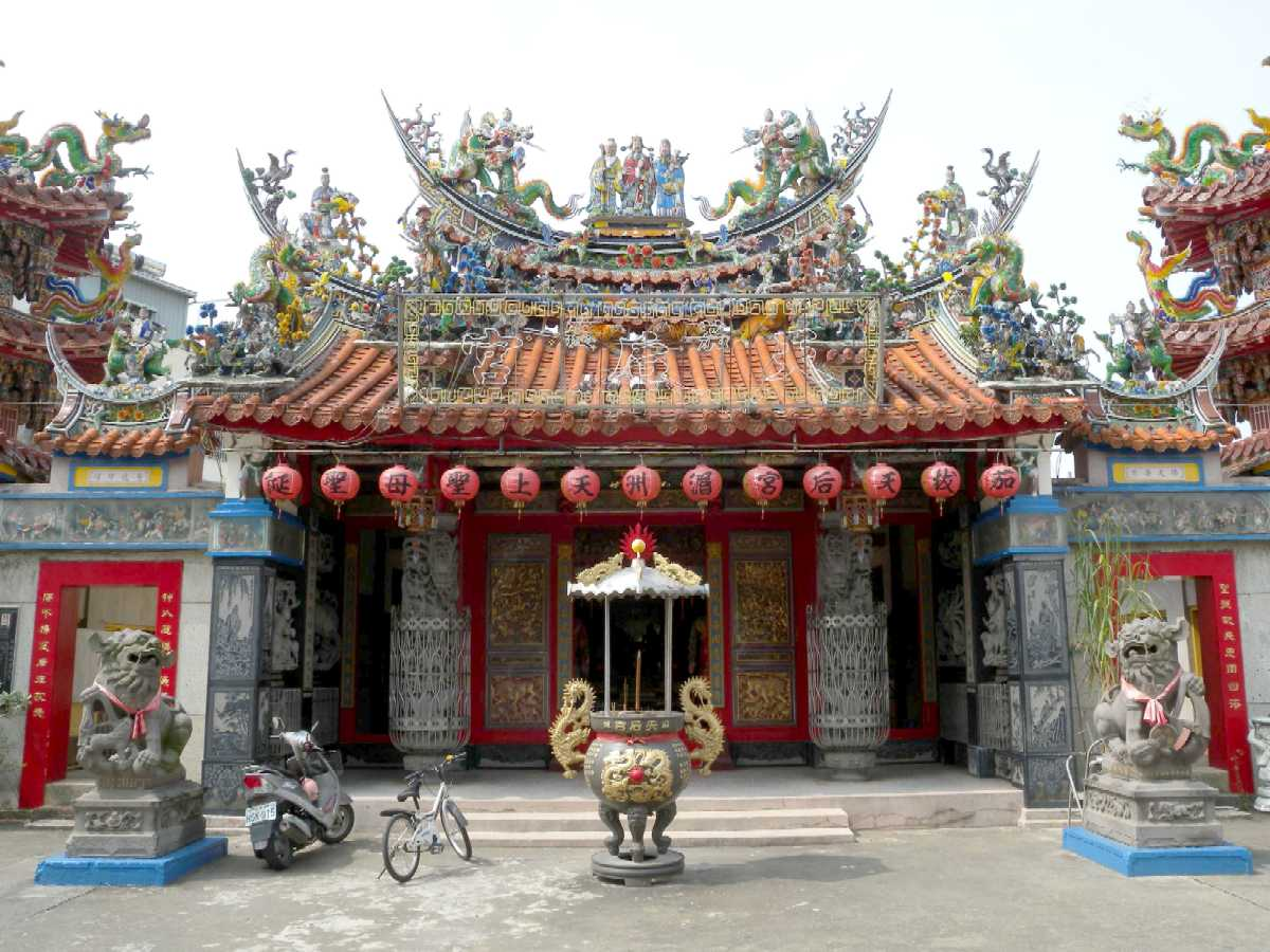 Chieba Matsu Temple